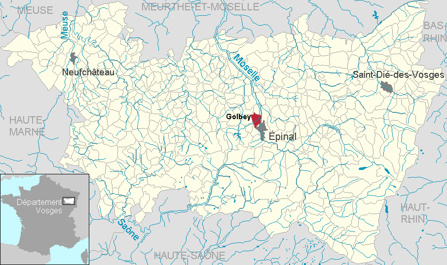 Golbey in the department of Vosges, Lorraine, France